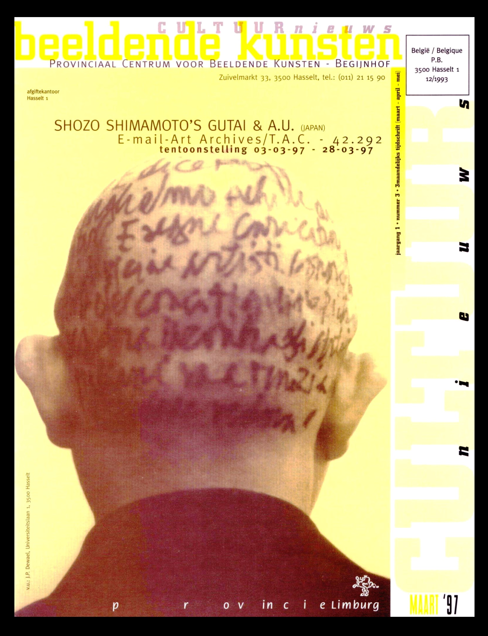 Cover of magazine 'Cultuurnieuws' 1997 - Curator show: Guy Bleus. Provinciaal Centrum Beeldende Kunst - Hasselt Belgium